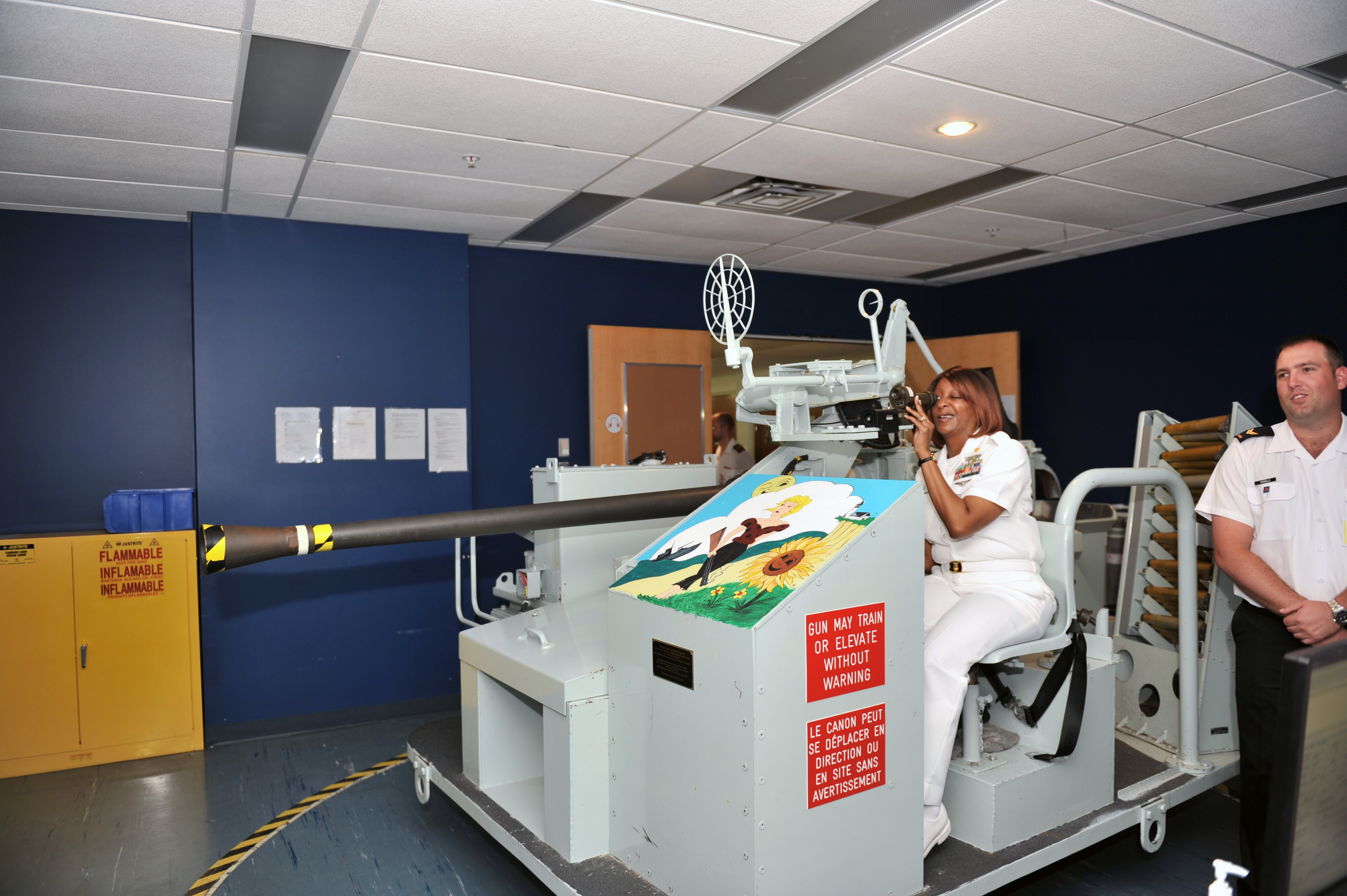 QUEBEC CITY (July 26, 2012) Master Chief Dee Allen, command master chief of Carrier Strike Group (CSG) 2, operates a 40mm Bowfors Navy gun at the Canadian Forces Fleet School Quebec small arms trainer. Sailors are visiting cities in America and Canada to celebrate the bicentennial of the War of 1812. (U.S. Navy photo by Mass Communication Specialist 2nd Class Tony D. Curtis/Released) 120726-N-YZ751-175 Join the conversation navylive.dodlive.mil